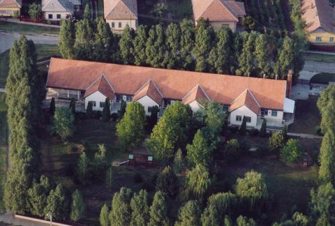 Csépa, Hungary, aerial photography